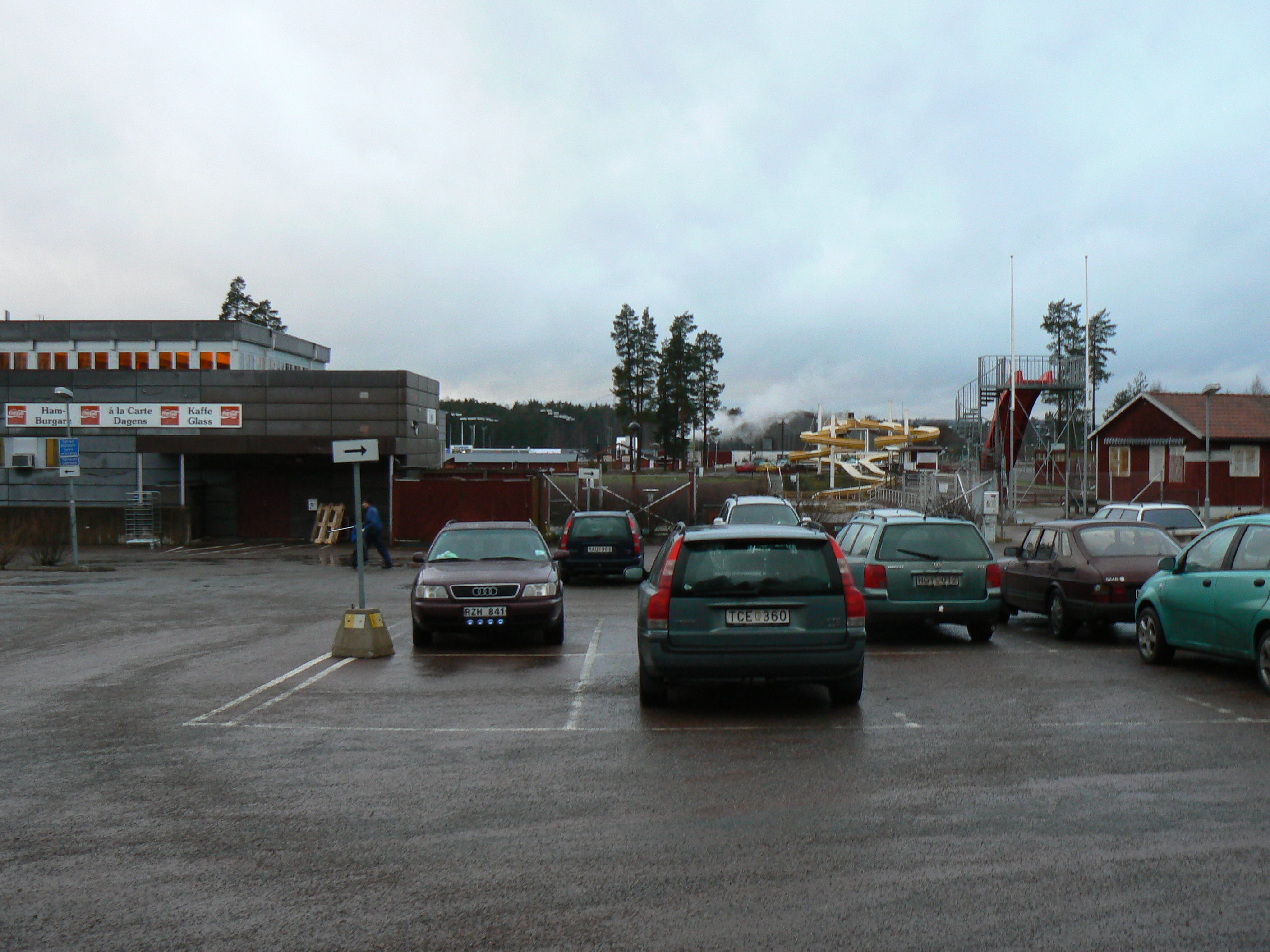 Image from Lugnet in Falun, Sweden. An area with arenas for many sports, including ski jumping, cross-country skiing, swiming, ice hockey, curling, athletics, bandy and tennis. Photo by Skvattram 2007-01-04.